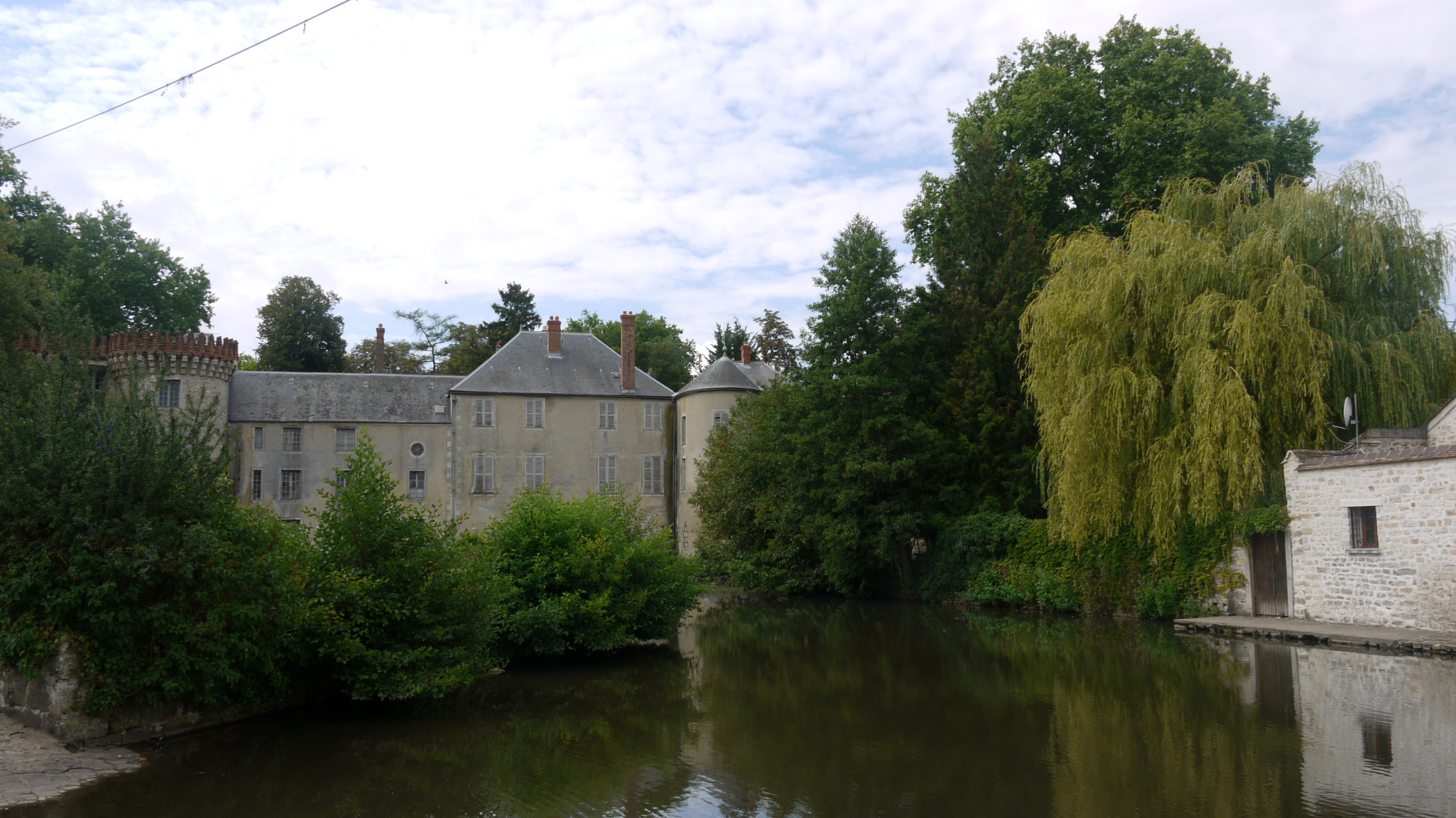 The river École and the castle in Milly-la-Forêt, Île-de-France